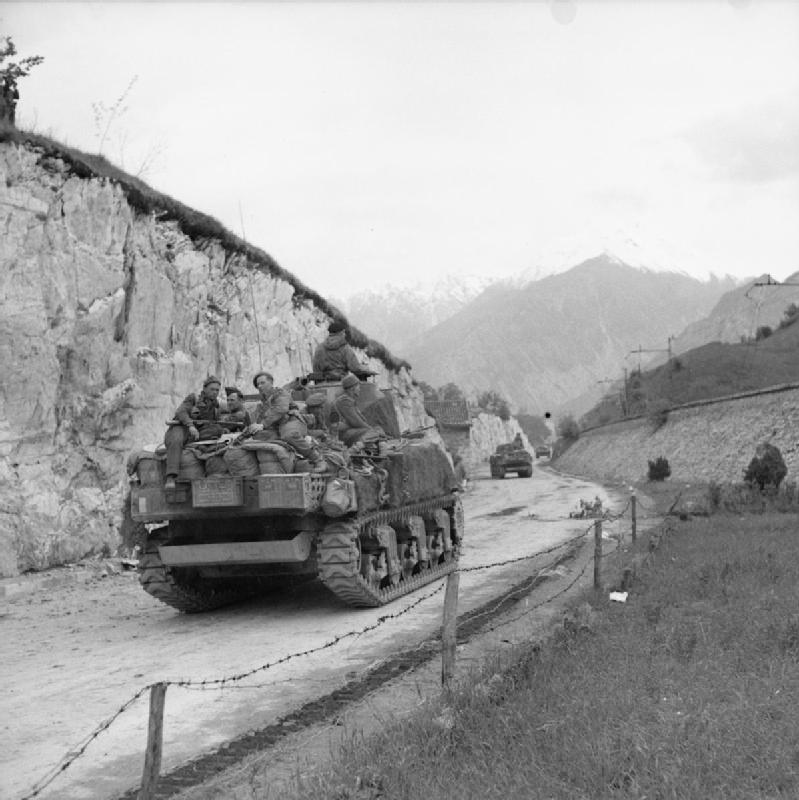 The British Army in Italy 1945 Infantry ride on Sherman tanks of 6th Armoured Division as they head towards the Austrian border, 4 May 1945.